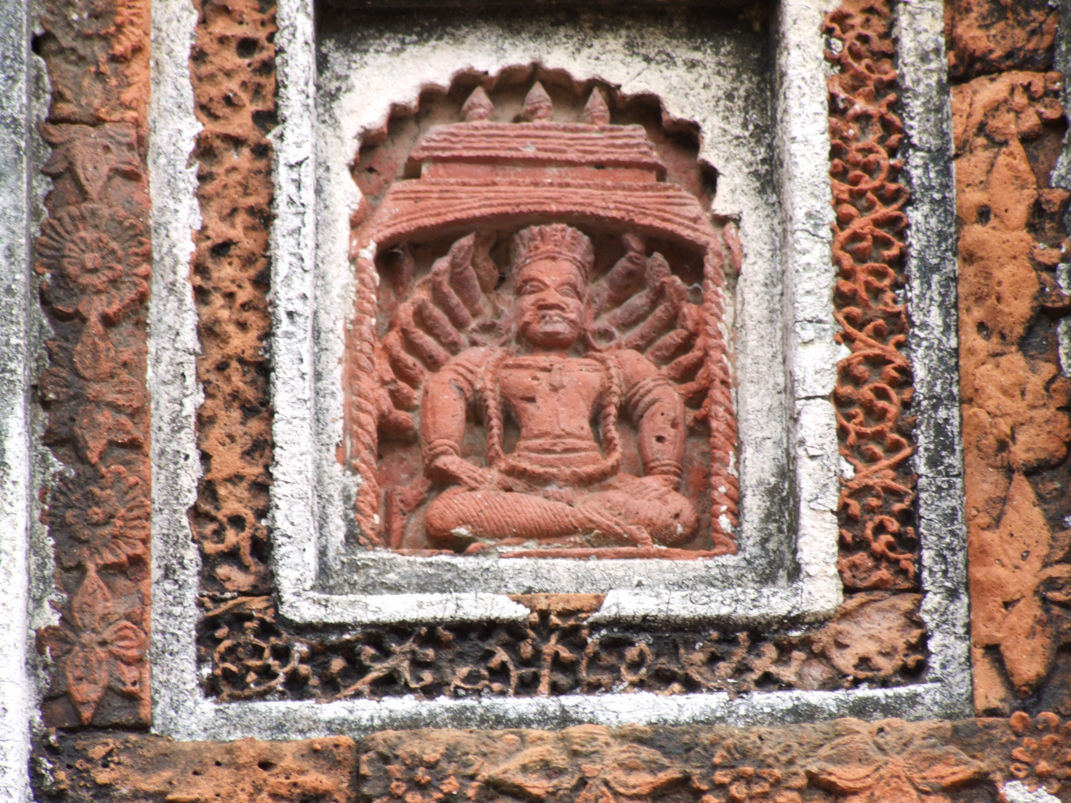 Kantanji's Temple in Dinajpur, Bangladesh. Photograph taken by: Saiful Aziz Shamsir.